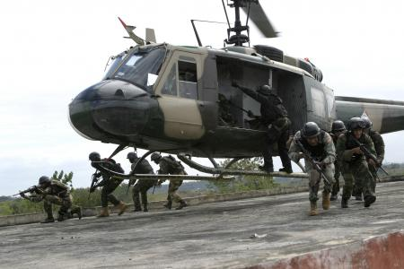 Commandos with a Dominican Republic counterterrorism unit known as Secretaria De Las Fuerzas Armadas Commando Especial Contra Terrorismo unload off of a UH-1 Iroquois helicopter at Ciudad Del Nino, March 10. A team of Marines with U.S. Marine Corps Forces, Special Operations Command, trained the commandos as part of U.S. Southern Command, Special Operations Command-South's Exercise Fused Response.